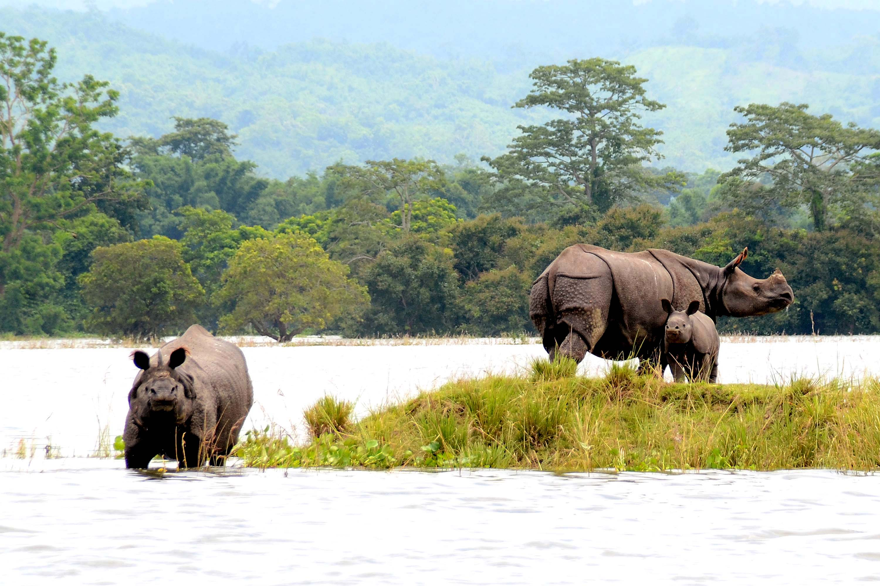 Adult rhinos with a calf at a highland during flood at Kaziranga National Park in Bagori range of Nagaon district of Assam,India